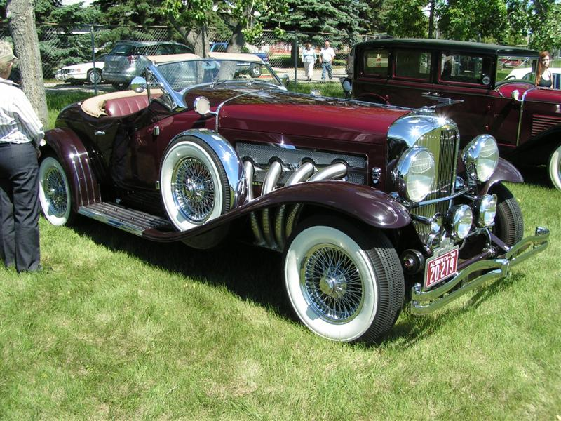 A hand built replica of the Model SSJ Duesenberg at the Ramsey community car show.